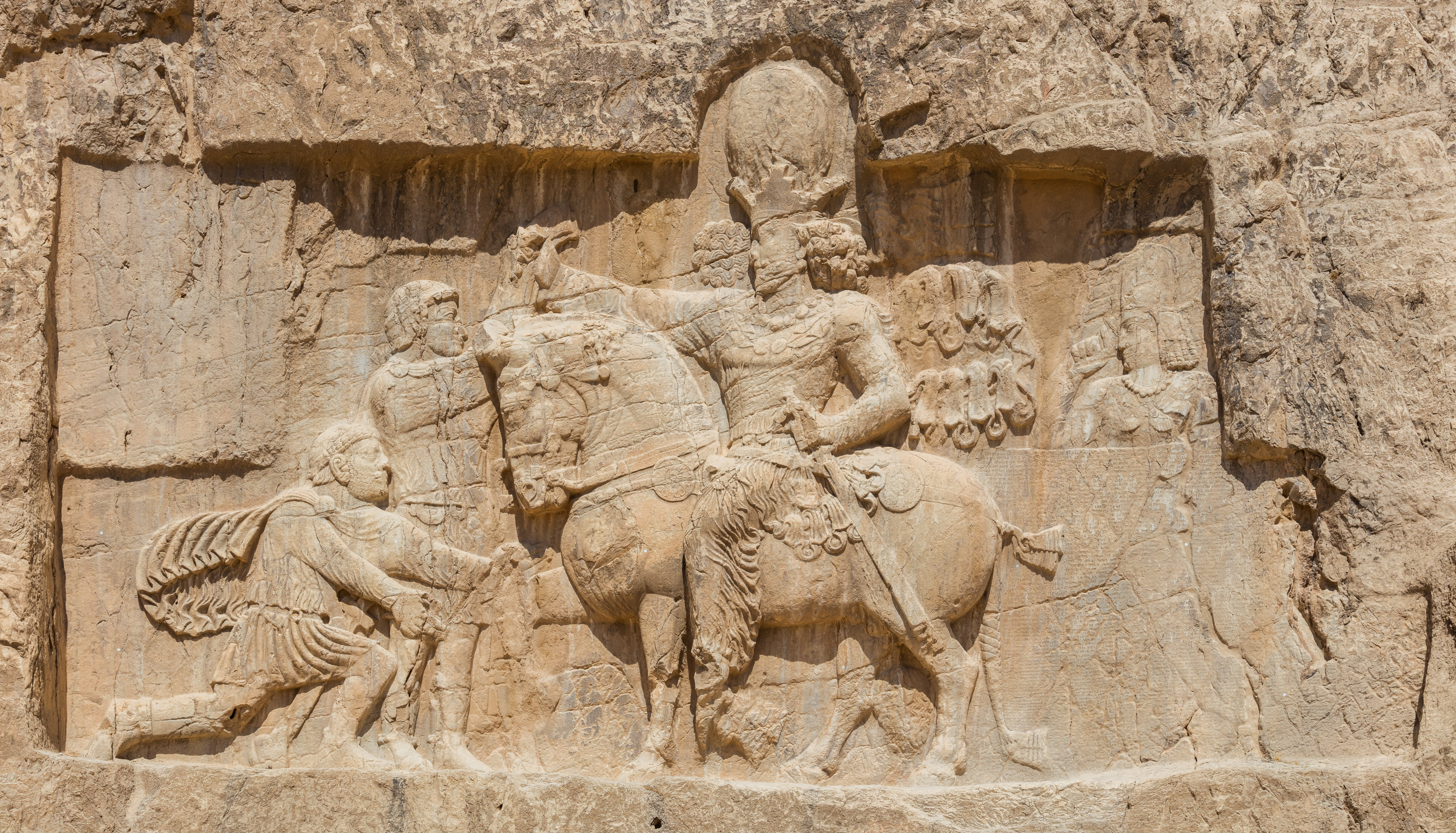 Naghsh-e rostam, Iran